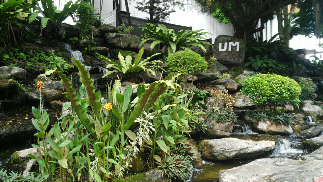 A small scenic area on the campus of the University of Malaya featuring the university's acronym "UM"